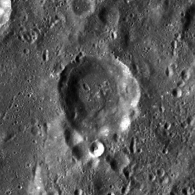 LROC image